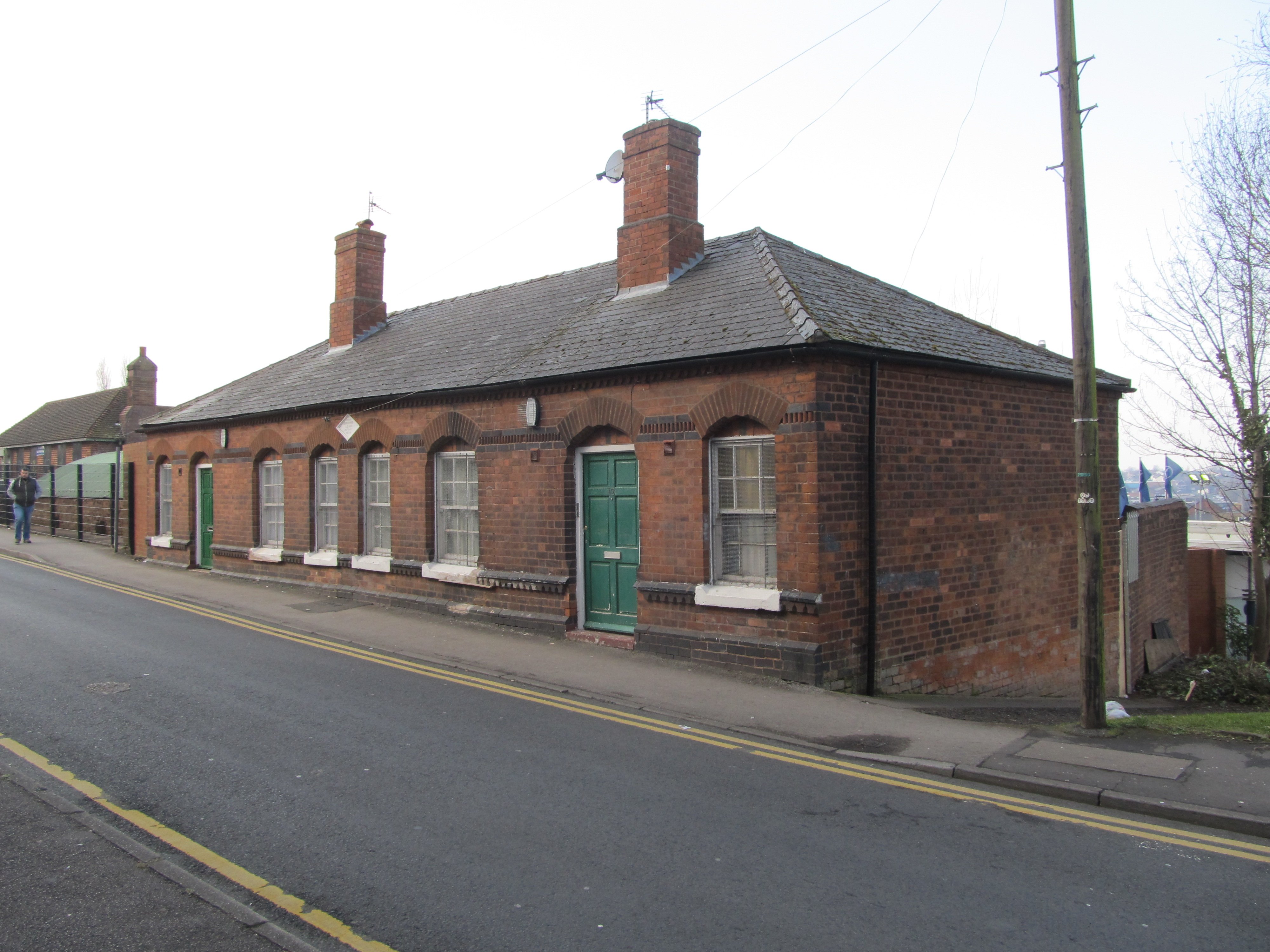 Harper's Almshouses, Walsall